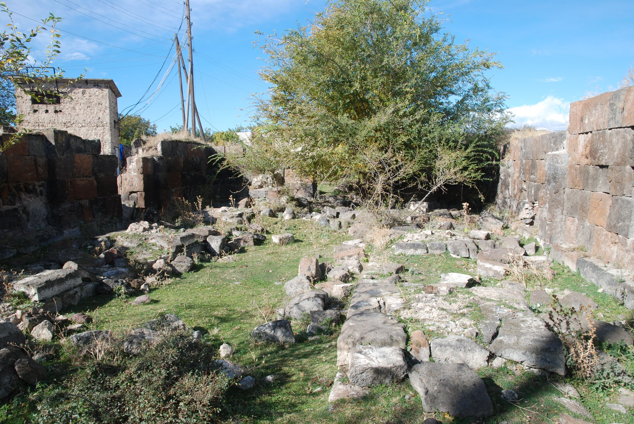 Yeghvard, basilica